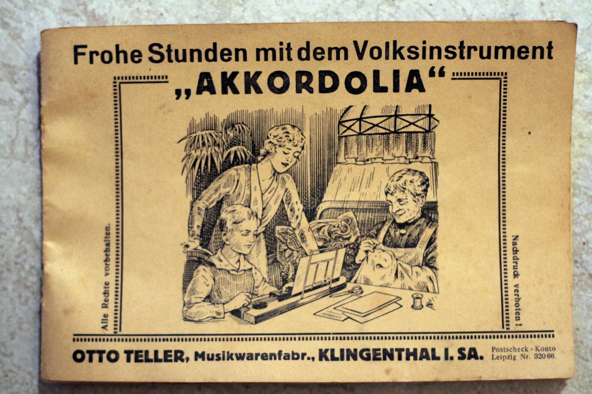 Title of the Handbook to Akkordolia zither.